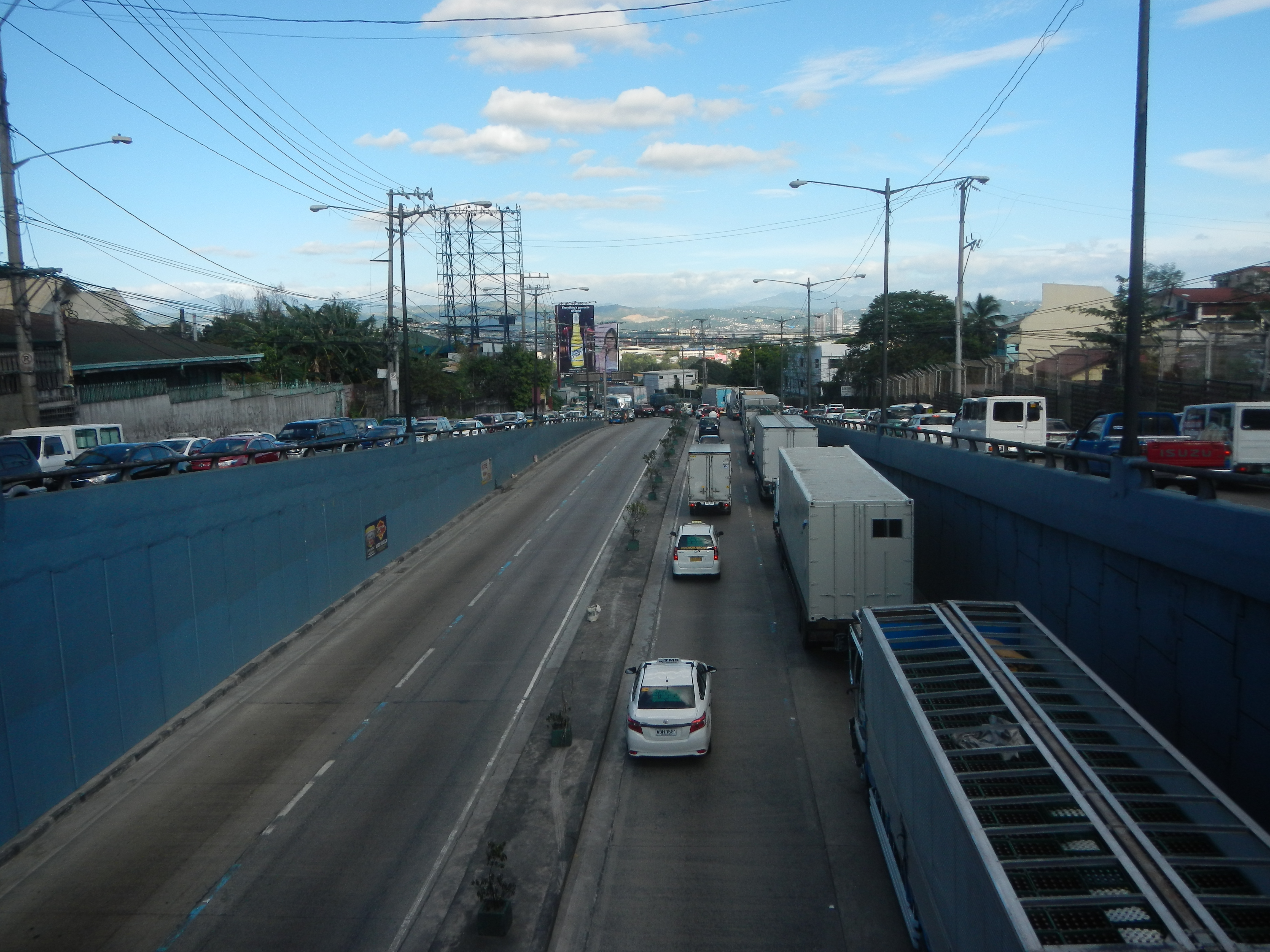 Junction - Colonel Bonny S. Serrano Avenue & Katipunan Avenue (Tunnel-Underpass, Bayanihan, Saint Ignatius and Blue Ridge, Quezon City) List of barangays of Metro Manila Legislative districts of Quezon City Districts 3, Barangays of Quezon City, Barangay Bayanihan Project 4 14°36'56"N 121°4'9"E Saint Ignatius 14°36'48"N 121°4'23"E Blue Ridge B 14°37'4"N 121°4'33"E Blue Ridge A 14°37'8"N 121°4'24"E Project 4, Quezon City along E. Rodriguez, Jr. Avenue corner Bonny Serrano Avenue and Katipunan_Avenue corner C. P. Garcia Avenue, of the Carlos P. Garcia Avenue (C-5) Carlos P. Garcia Avenue Circumferential Road 5 (Note: Judge Florentino Floro, the owner, to repeat, Donor Florentino Floro of all these photos hereby donate gratuitously, freely and unconditionally all these photos to and for Wikimedia Commons, exclusively, for public use of the public domain, and again without any condition whatsoever).